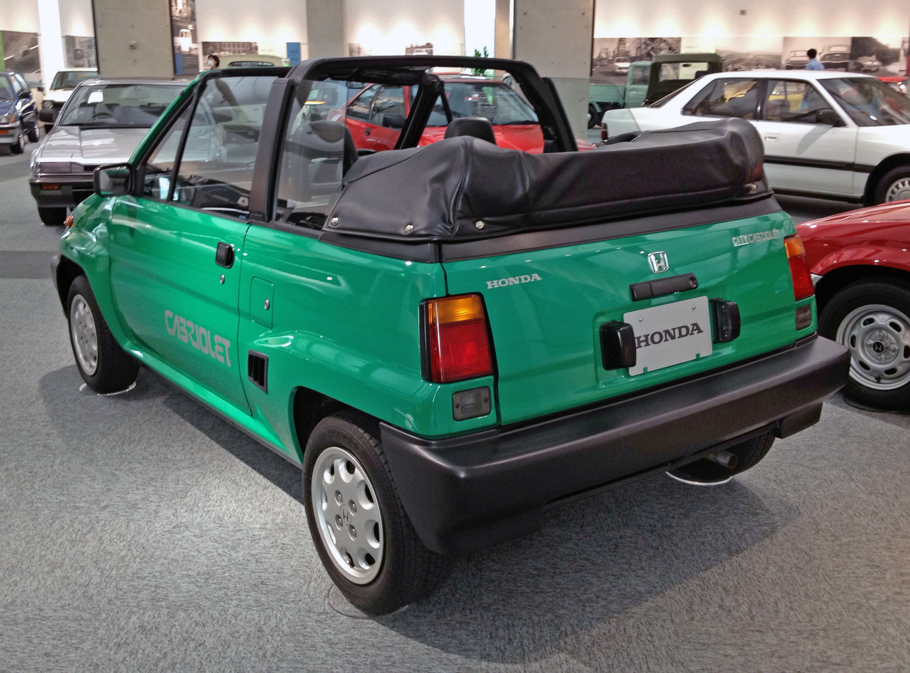 Honda City Cabriolet, 1984, in the Honda collection hall at Motegi